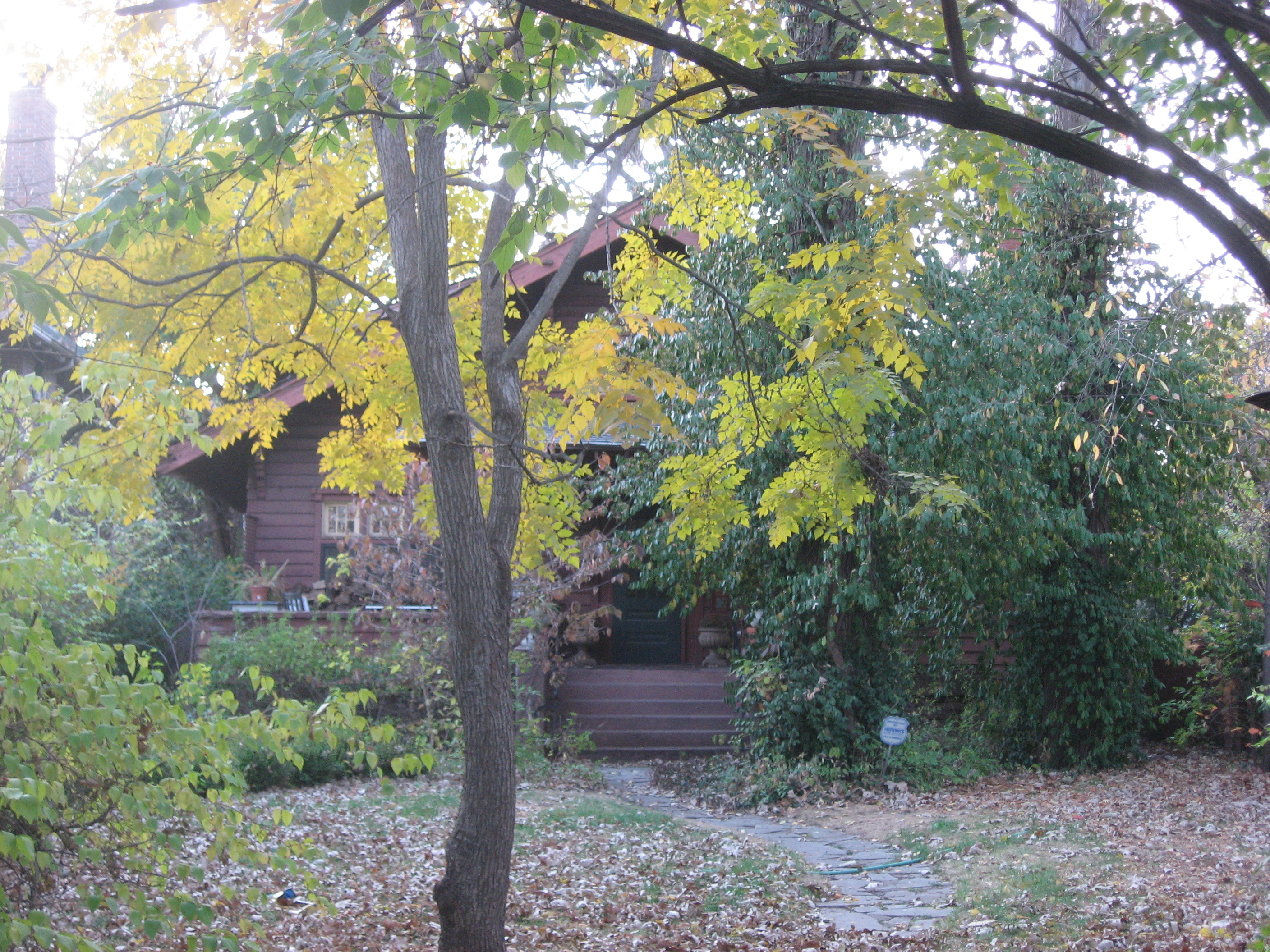 Front of the George Philip Meier House, located at 3128 N. Pennsylvania Street in Indianapolis, Indiana, United States. Built in 1907, it is listed on the National Register of Historic Places.